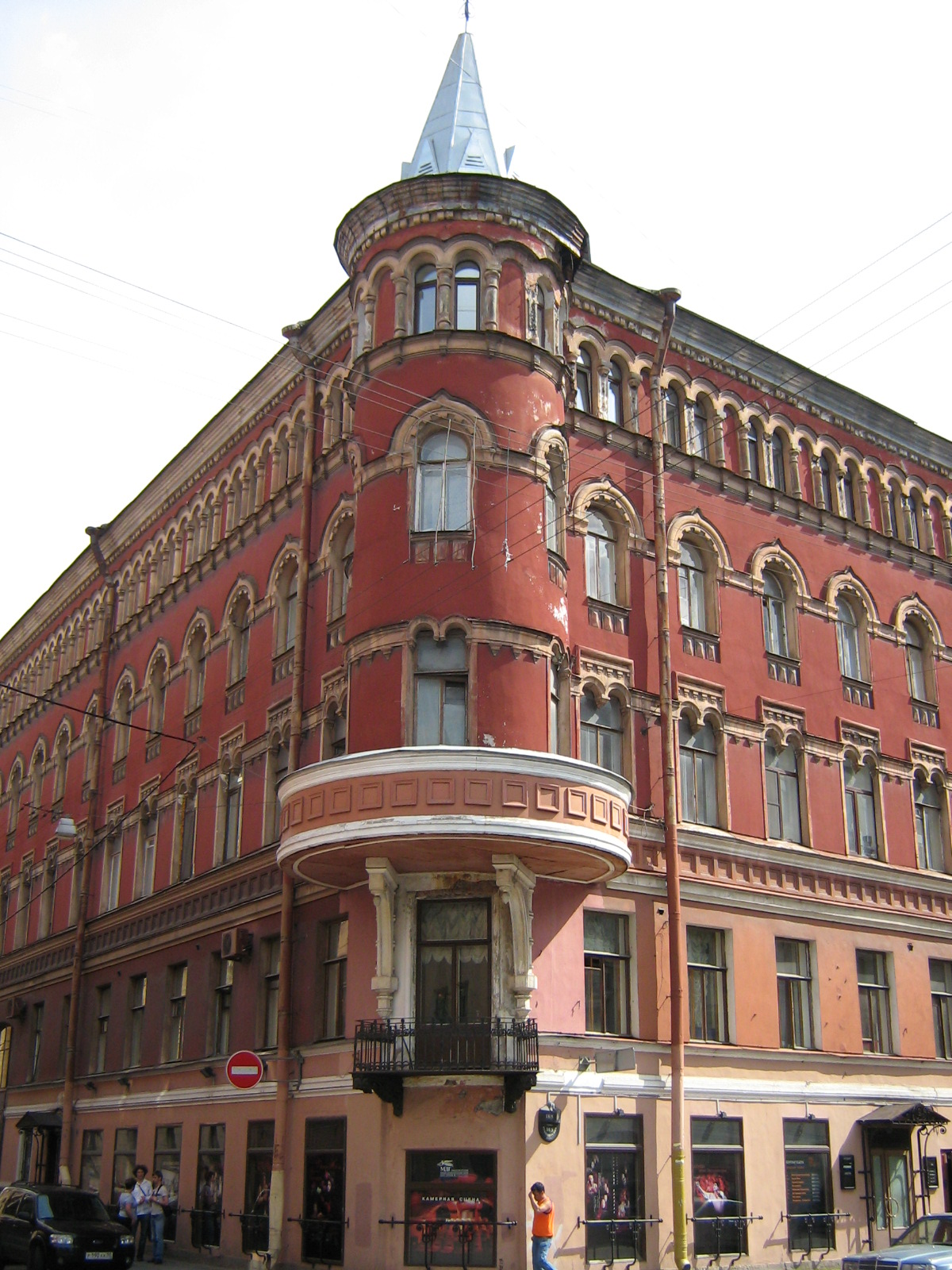 18, Rubinshteina Street (left wing), and 5, Grafsky Lane (Saint-Petersburg, Russia). Zheverzheev house (architect Alexander von Gogen, 1899).